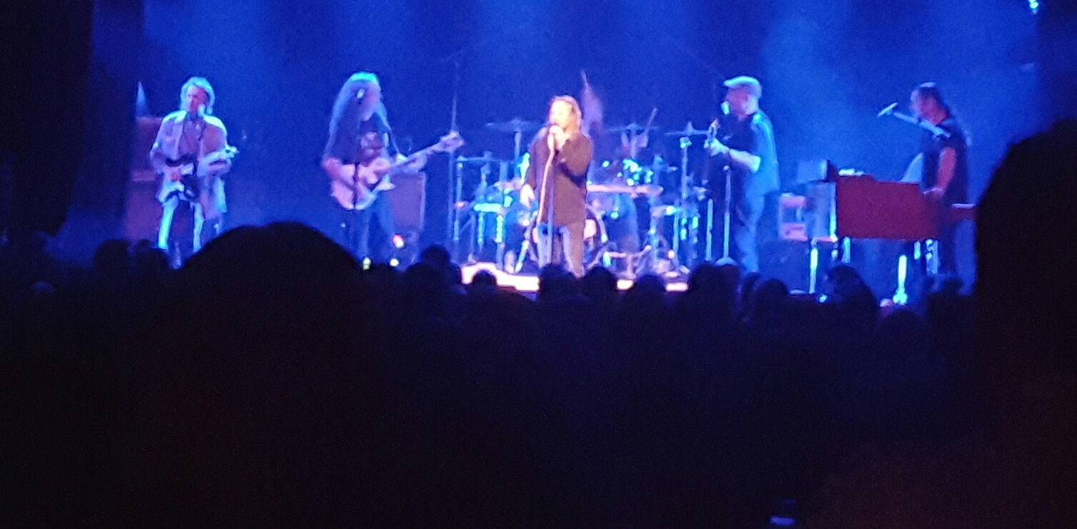 Offenbach photographed in St. Eustache, Quebec, Canada at La Petite Église.